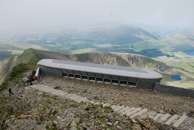 Hafod Eryri café and visitor centre near the summit of Mount Snowdon, Wales